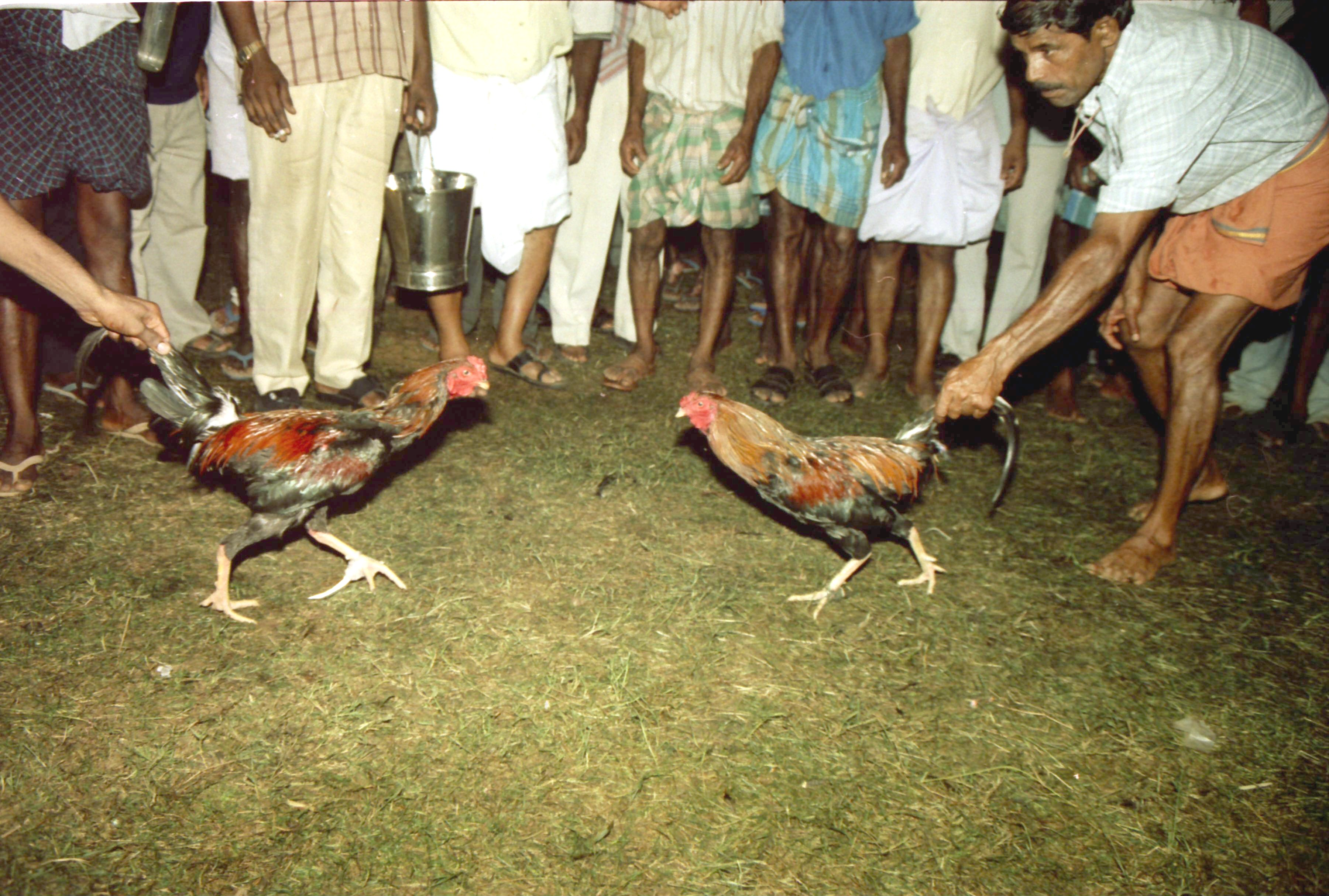 Umanatherna Korida Katta, held at the field of Sri Sanjeevanna